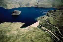 A portion of the Elephant Butte Reservoir and the Elephant Butte Dam near Truth or Consequences, New Mexico